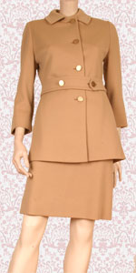 Tan suit